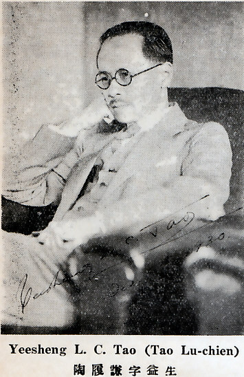 Yeesheng L. C. Tao (Tao Lüqian; T'ao Lu-ch'ien) (1890 - 1944)